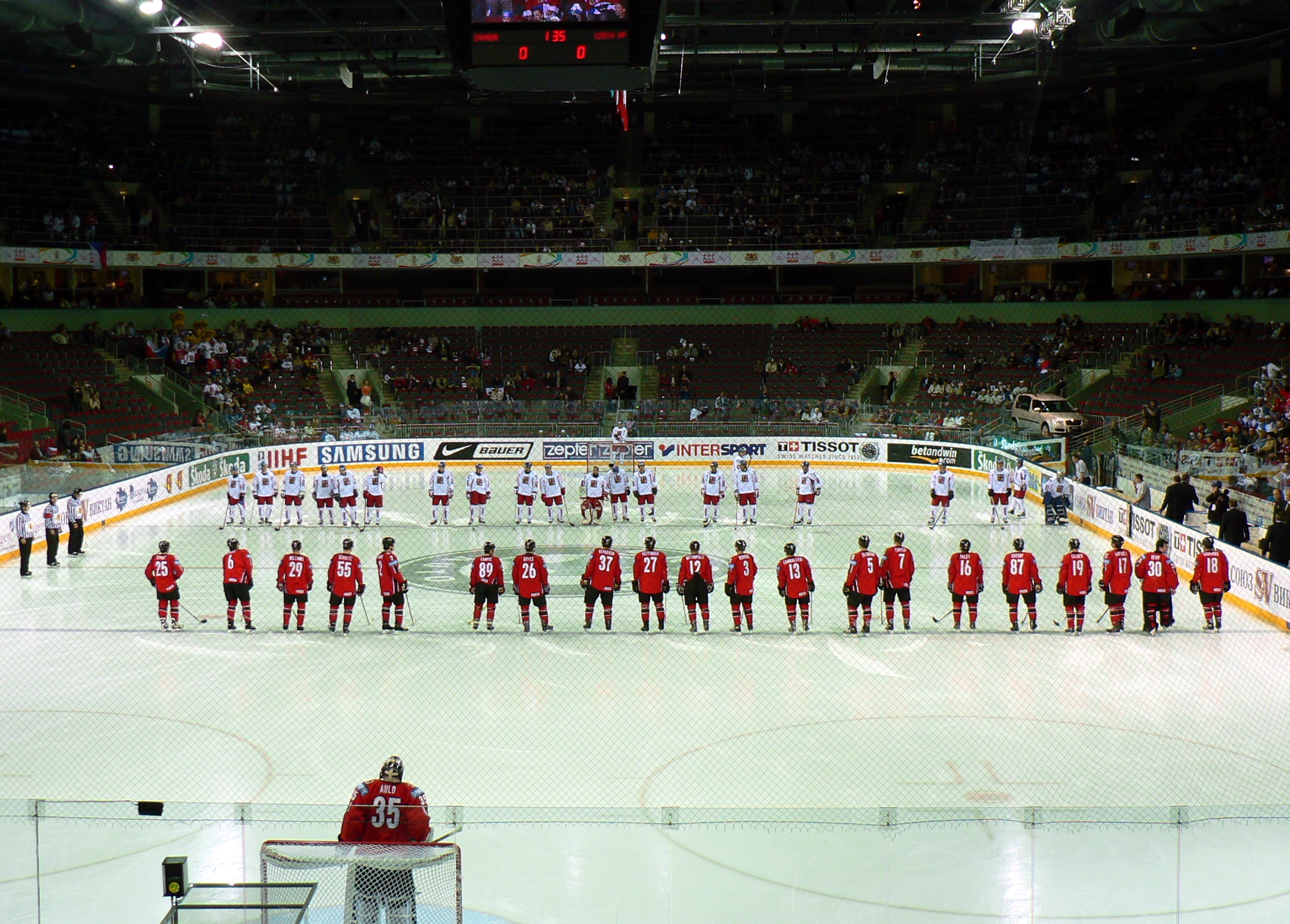 Ice hockey match in Arena Riga during IIHF WC 2006